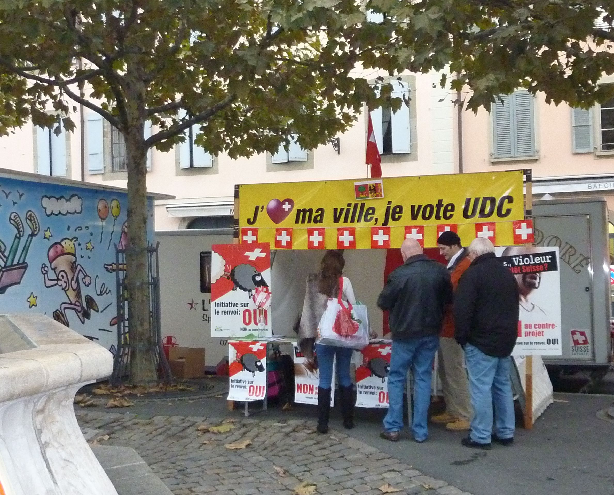 Signature stand of a Swiss politic party on a market in Carouge